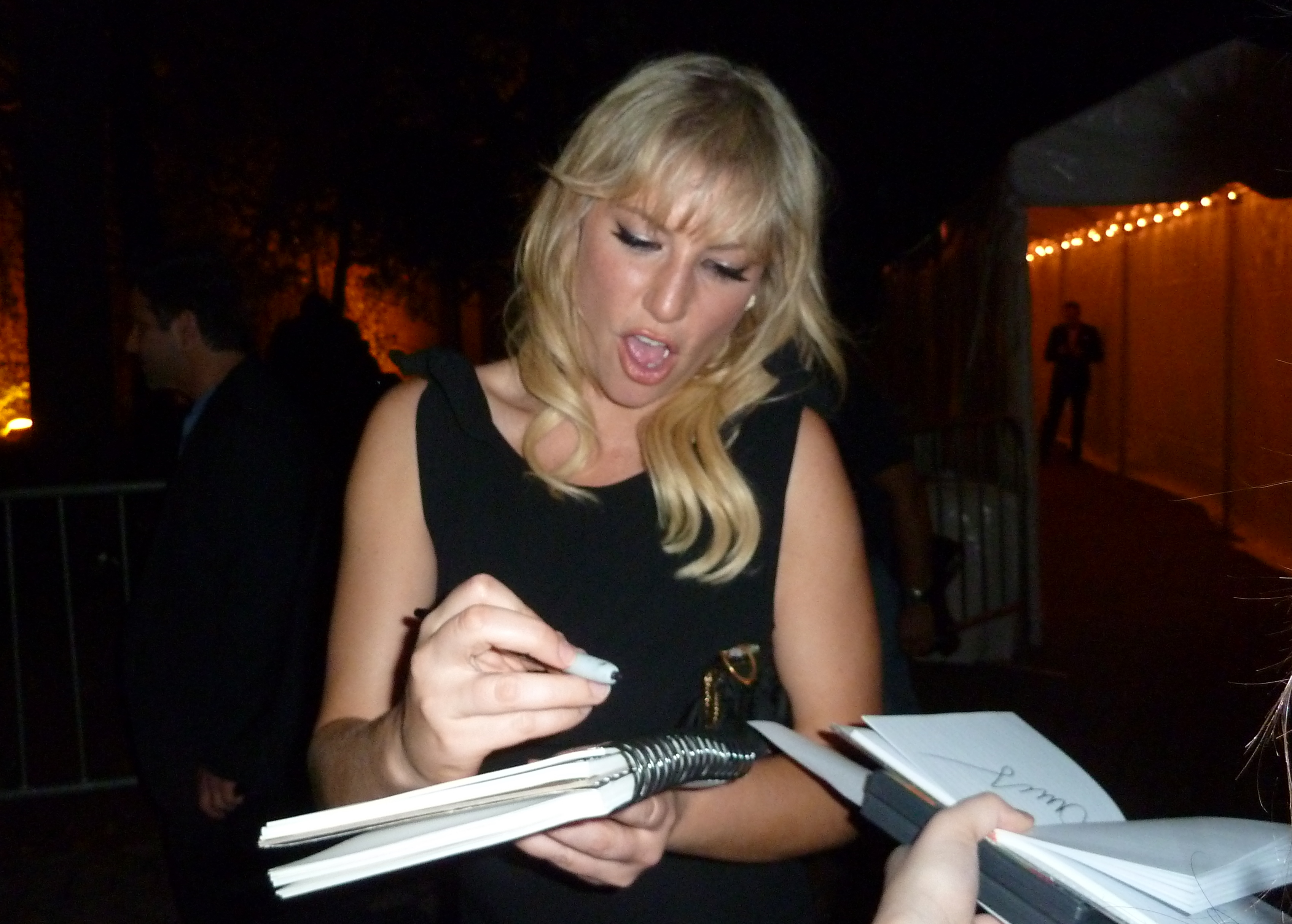 Ari Graynor at the premiere of Ten Year, Toronto Film Festival 2011